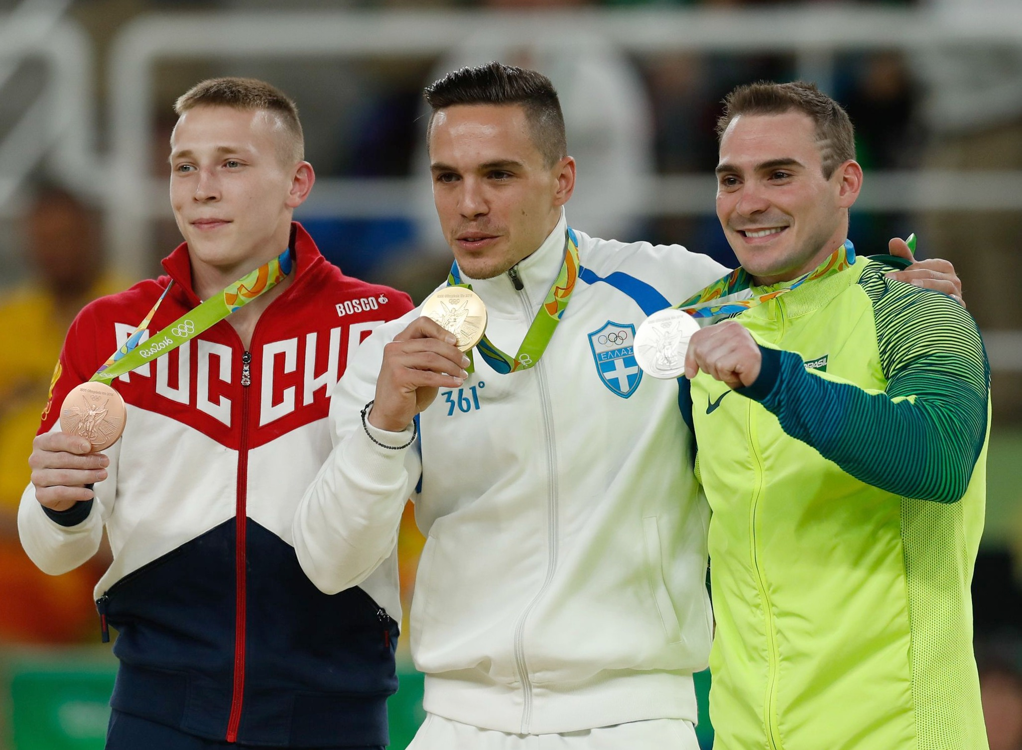 Competitions in gymnastics at the Olympics 2016. Discipline - rings.